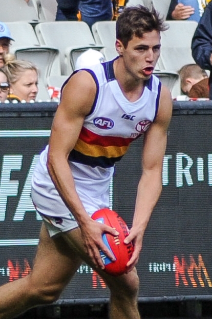 Jake Kelly during the AFL round two match between Hawthorn and Adelaide on 1 April 2017 at the Melbourne Cricket Ground in Melbourne, Victoria.